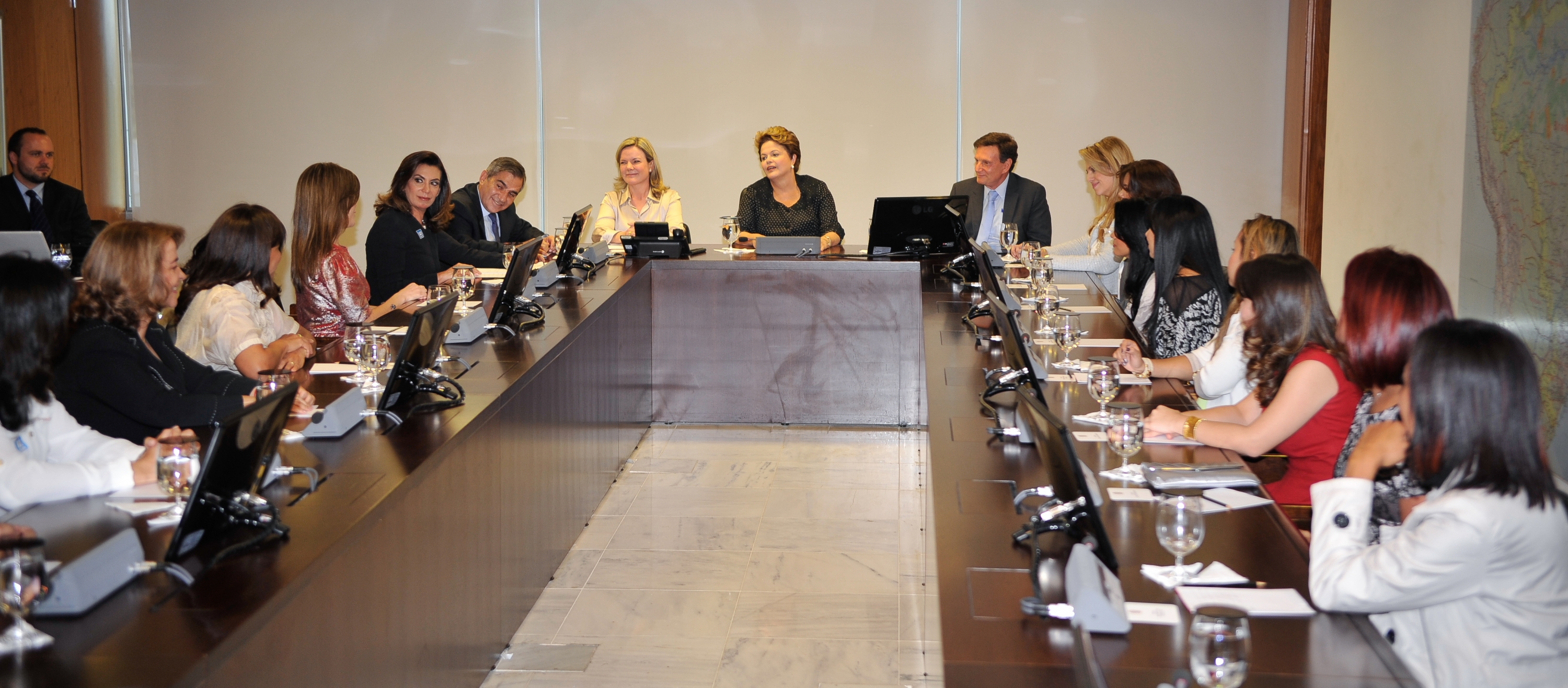 The president of Brazil, Dilma Rousseff in a meeting with evangelical singers and bishops at Planalto Palace, in Brasília. The meeting was attended by Ana Paula Valadão, Sônia Hernandes, Valnice Milhomens and other evangelical representatives.